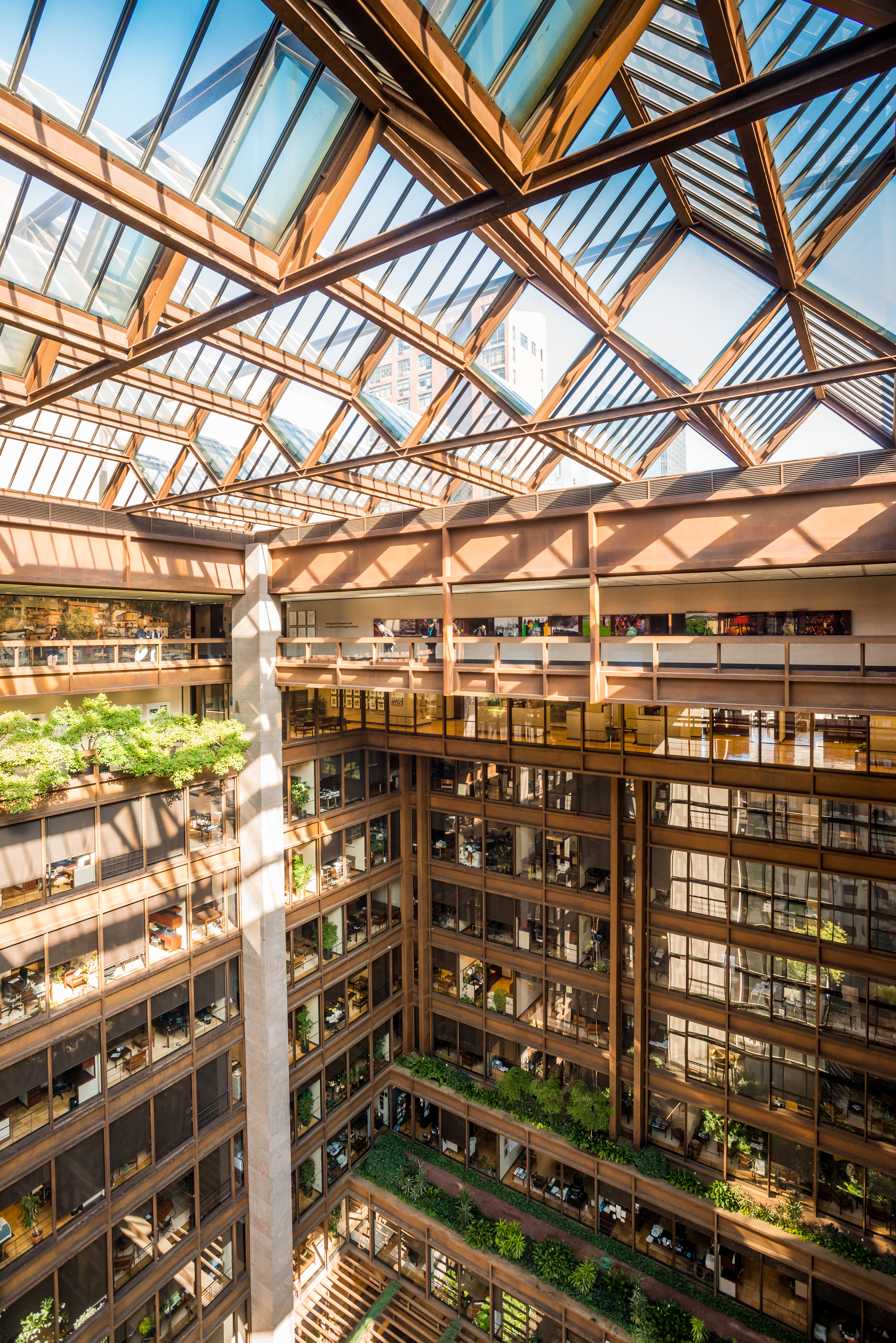 Site: Ford Foundation